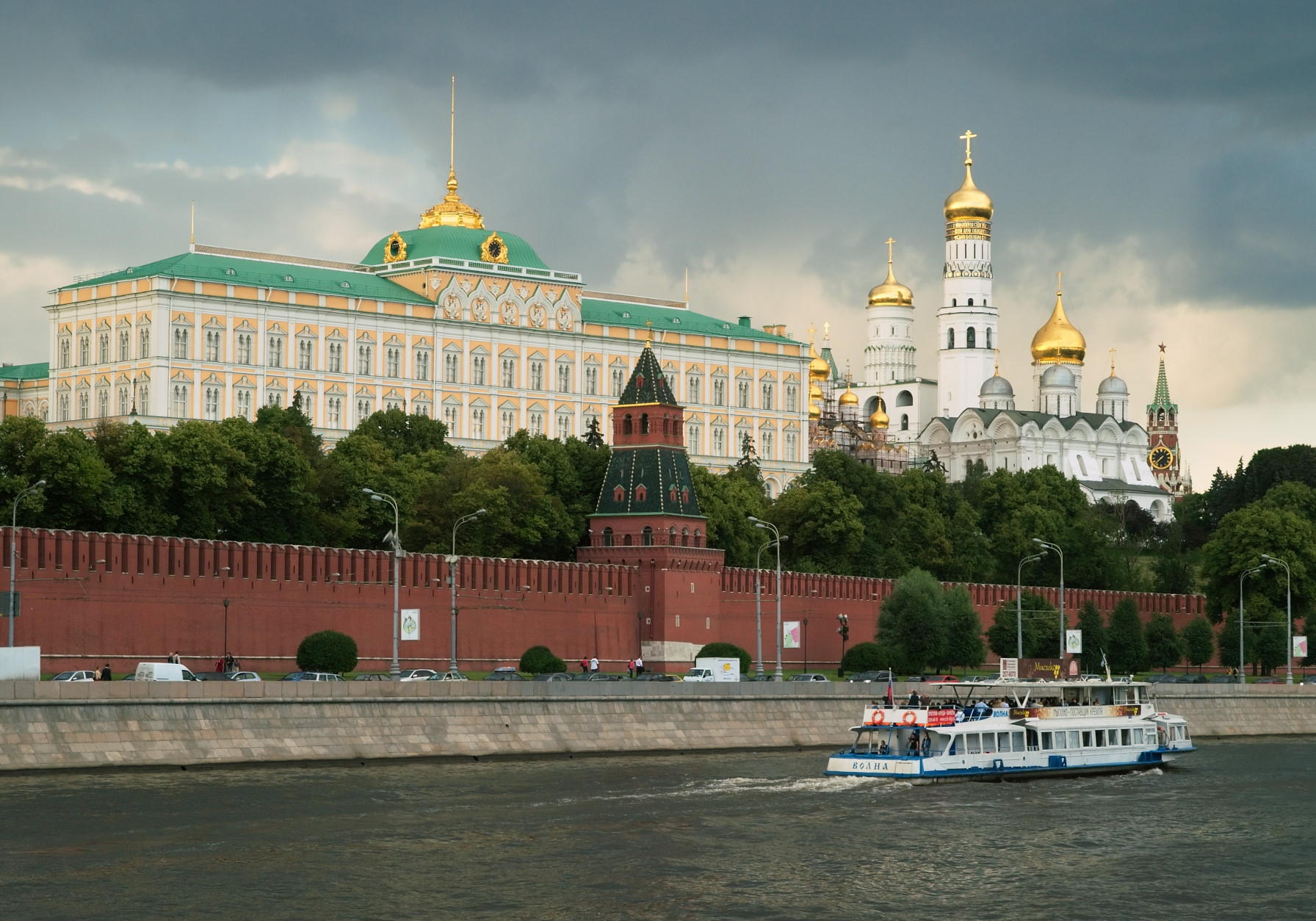 Moscow Kremlin, thunderstorm brewing